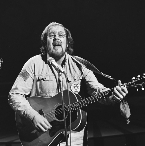 Harvey Andrews, rop/rock program 'Popzien' on Dutch television